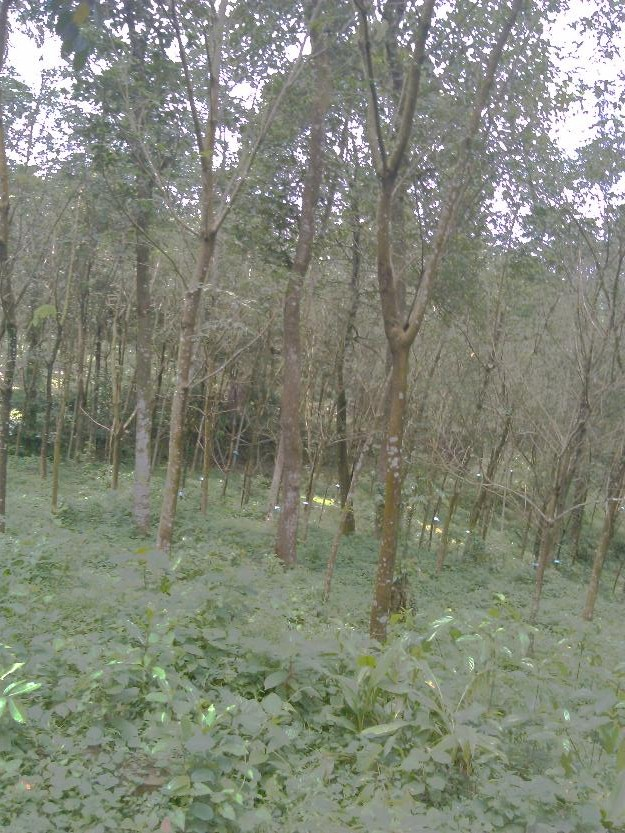 Rubber Plantation at Vayala